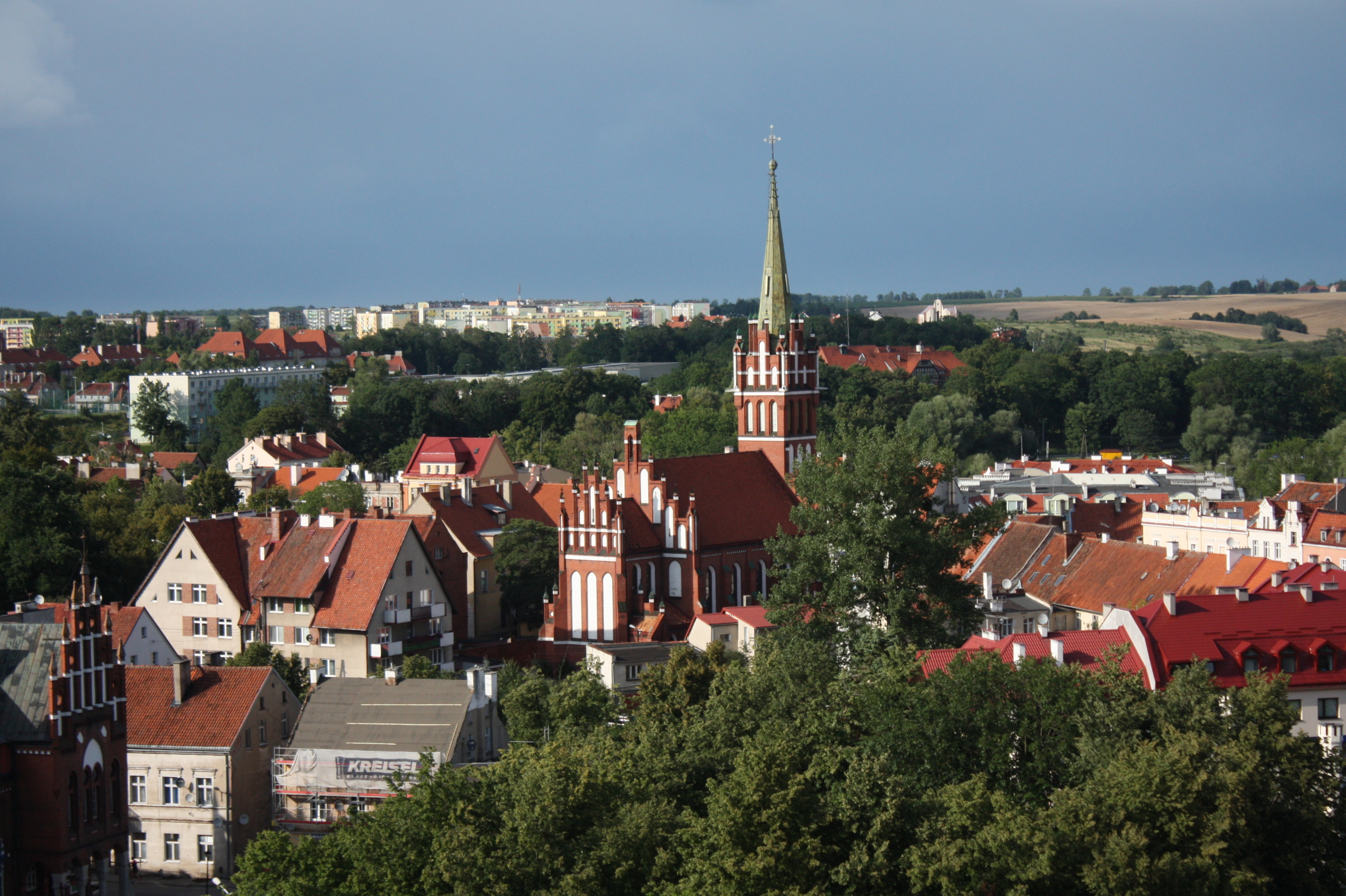 This photo of Warmian-Masurian Voivodeship was taken during Wikiexpedition 2012 set up by Wikimedia Polska Association. You can see all photographs in category Wikiekspedycja 2012. The making of this document was supported by Wikimedia Polska.